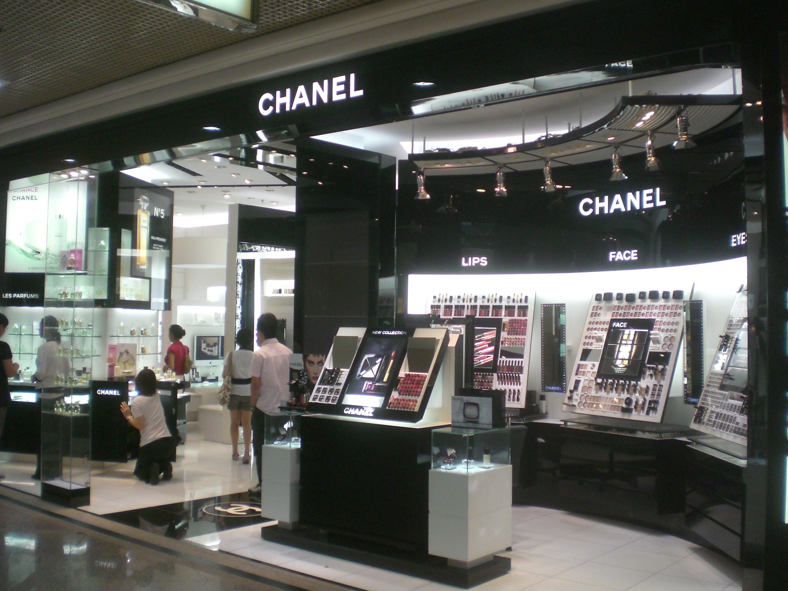 香港時代廣場